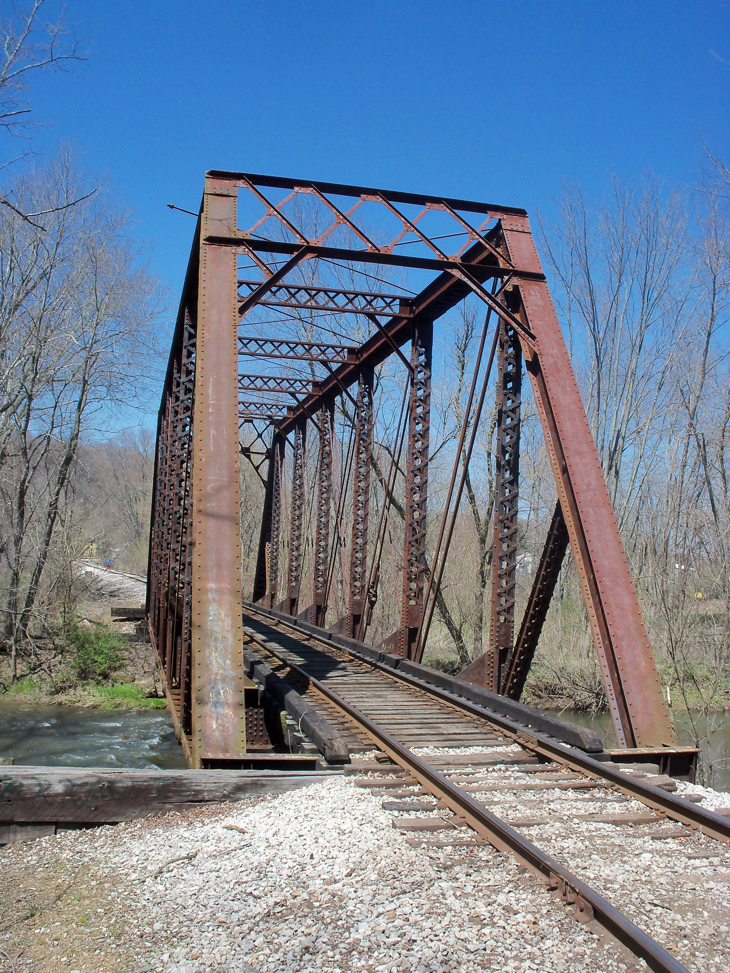 W&LE bridge over Sandy Creek in Oneida, Ohio, view from south